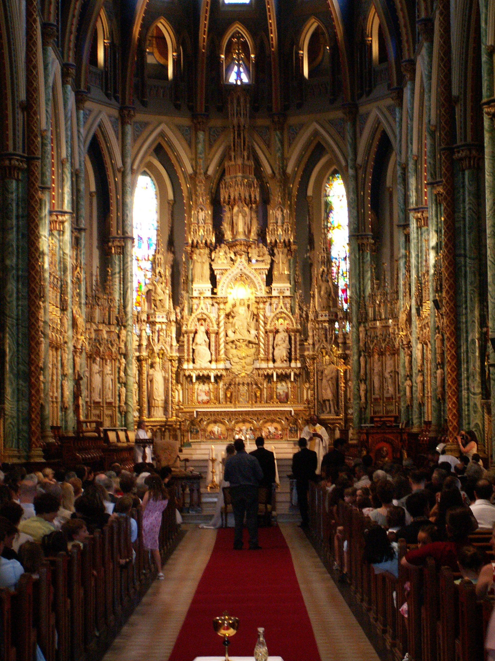 Notre Dame in Ottawa, Ontario, Canada